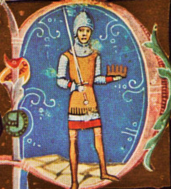 Peter of Hungary